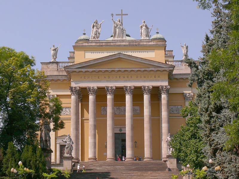 The Basilica of Eger